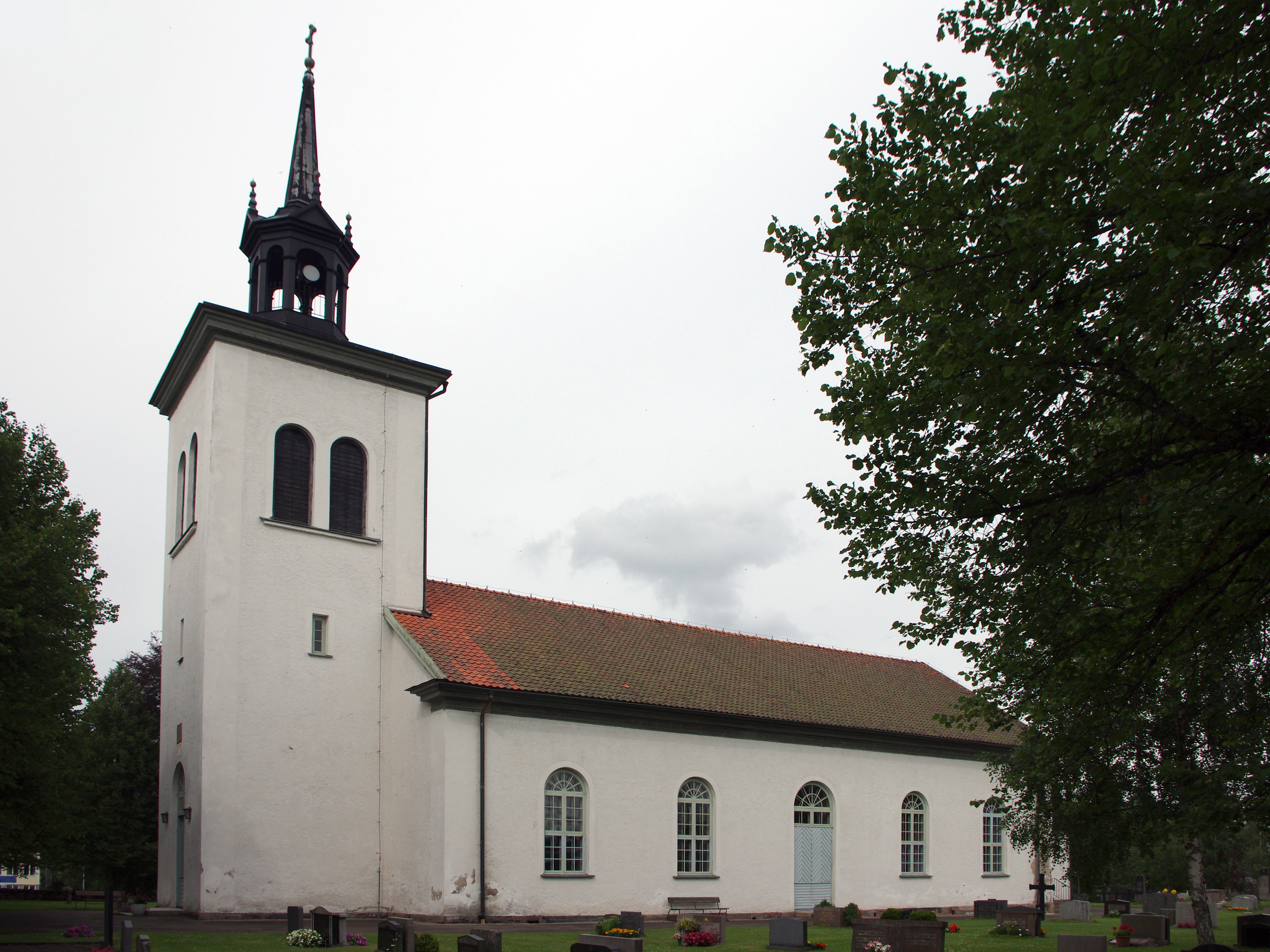 Fröjered church in Västergötland, Sweden.